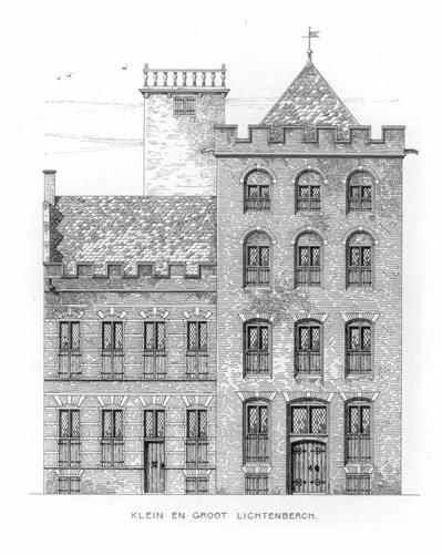 Klein and Groot Lichtenberg, Utrecht. Drawing by G. de Hoog Hz.